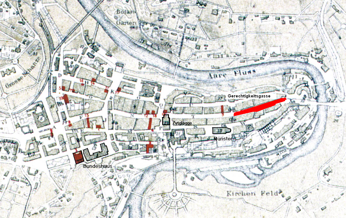 City plan of Bern, 1882. Scanned from BERN: Eine Stadt vor 100 Jahren, Bilder und Berichte; Peter Lauenberger, Emil Erne; München 1997; p. 7. Originally from Bern und seine Umgebungen, C.H. Mann, 1882 in the Alpines Museum of Bern. Due to the age of the image, it must be assumed that the author has been dead for more than 70 years. Copyright protection has therefore lapsed under Swiss copyright law (Art. 29 par. 3 URG).